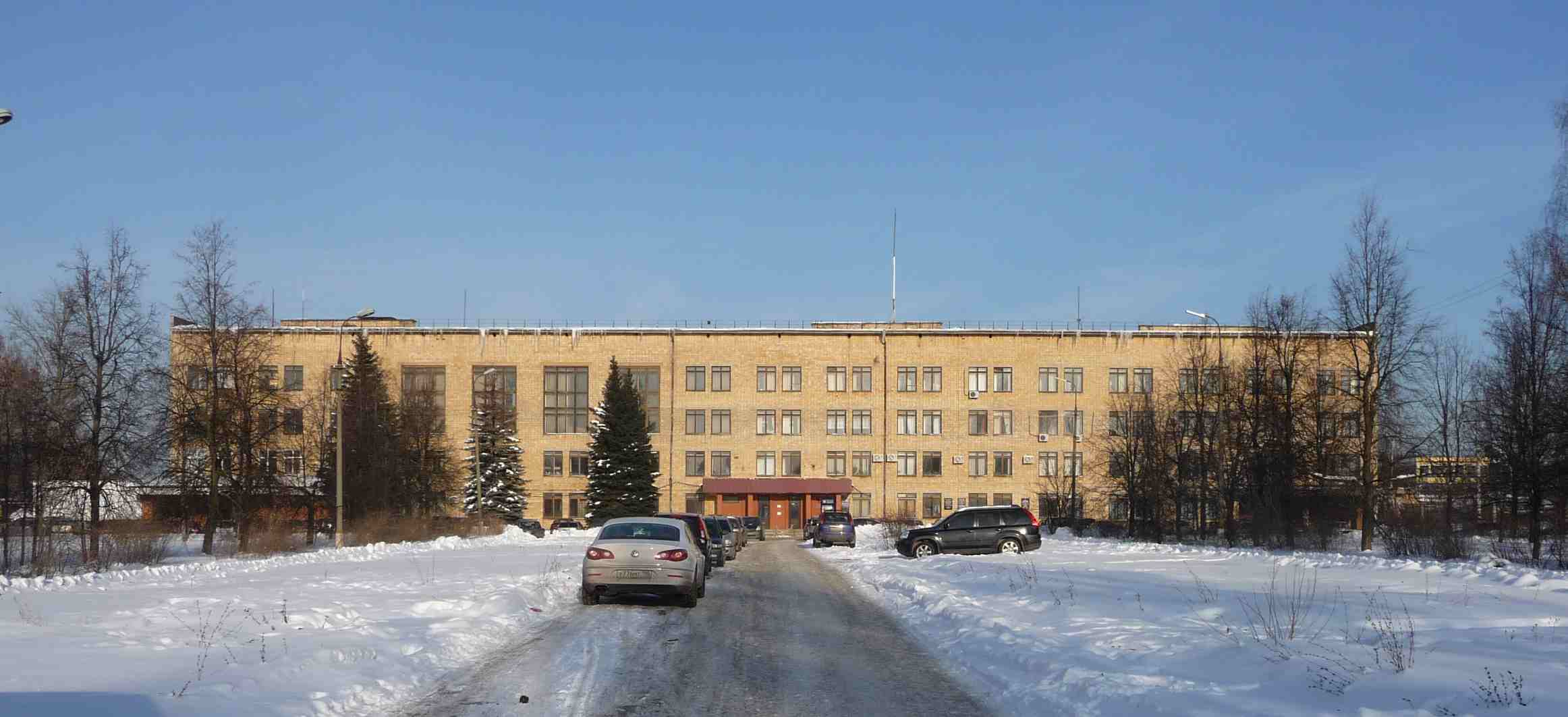 One of the building of Fryazino branch of IRE RAS. Fryazino, Moscow oblast, Russia